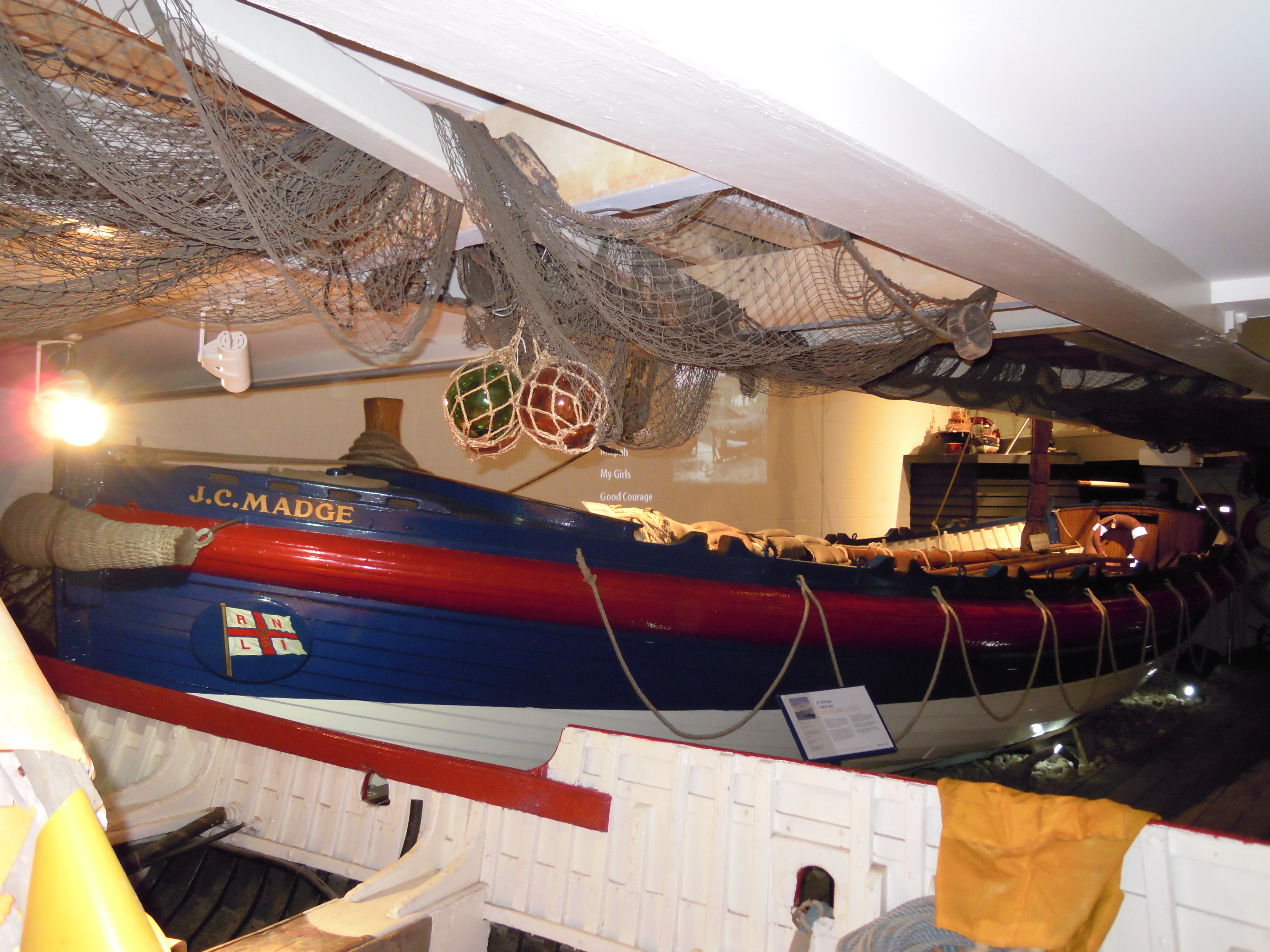 The Sheringham Lifeboat "J C Madge ON 536" on permanant display at Sheringham Museum, "The Mo". This photograph was taken on the first day the Museum was opened